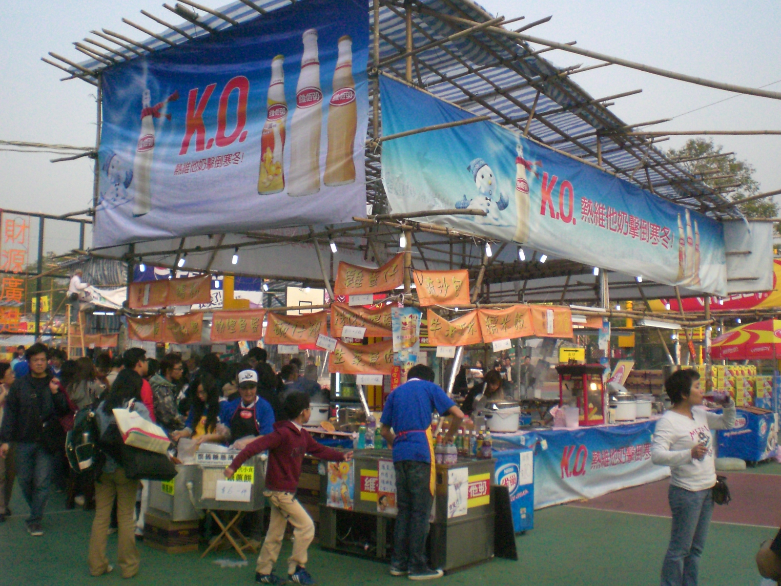 又一村